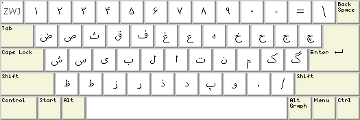 Iranian standard ISIRI 9147 keyboard layout for Persian. For the latest version of these layout images refer to